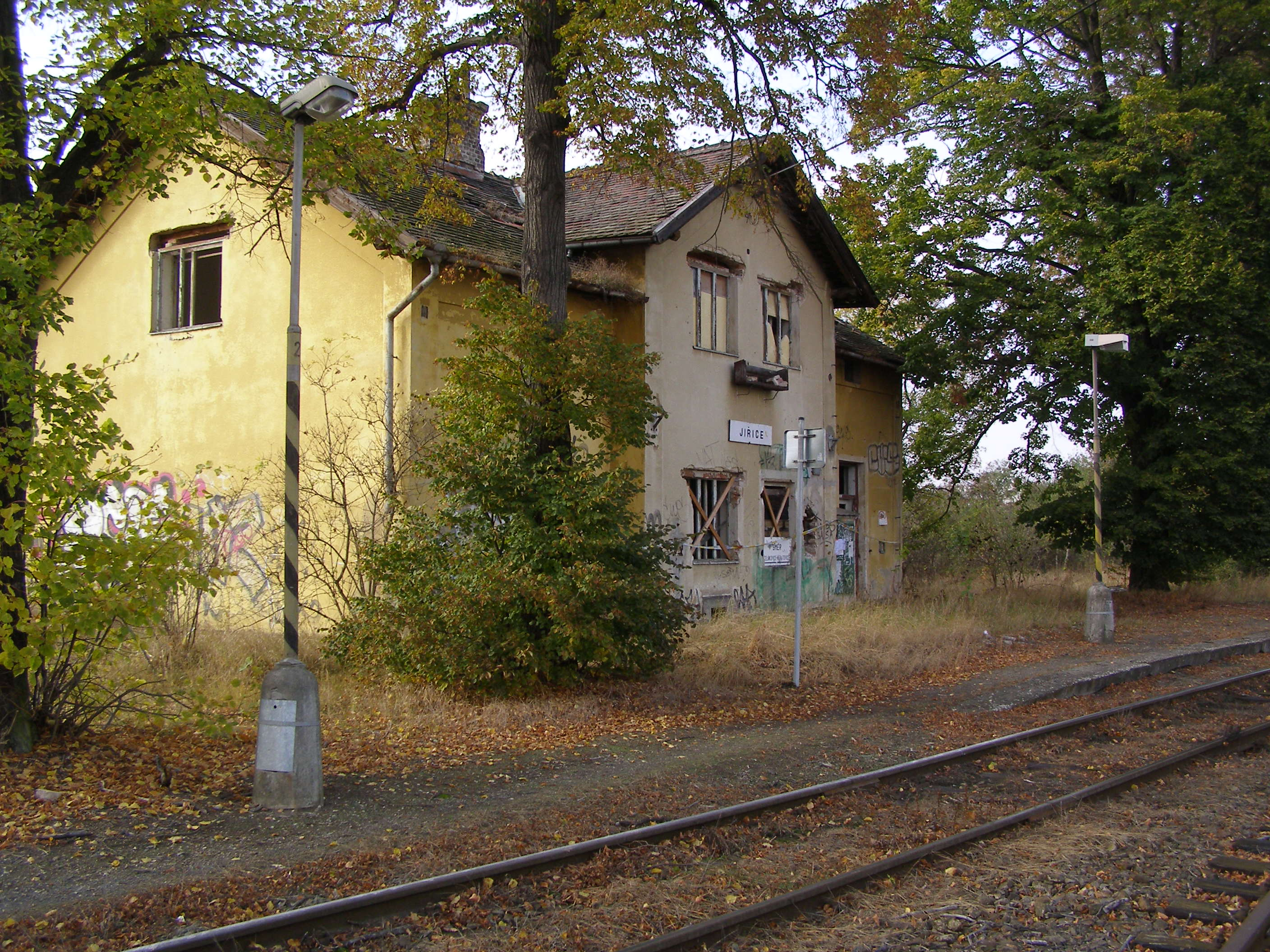 Jirice - rail station